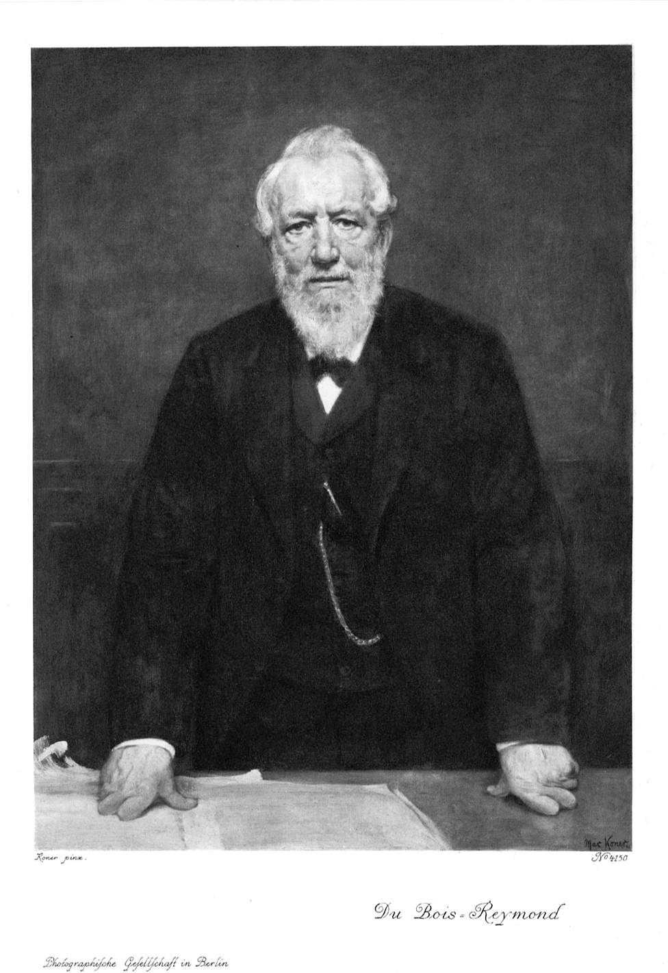 Emil Heinrich Du Bois-Reymond (1818–1896), German physiologist; heliogravure of a painting’s photographic reproduction.